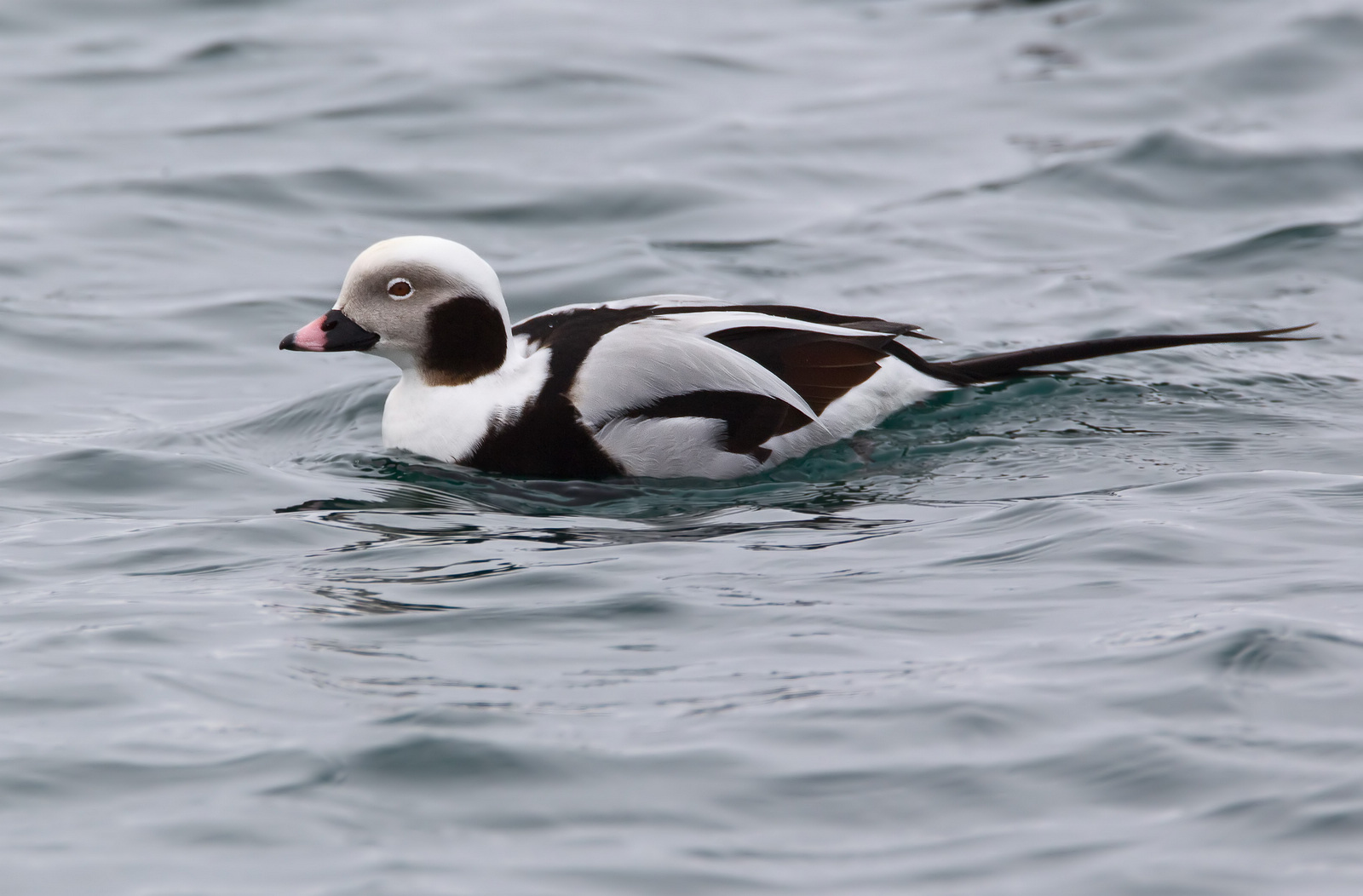 An adult male Long-tailed Duck in Hokkaido, Japan.